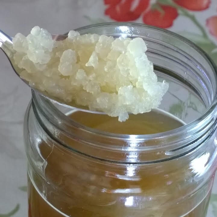 Water kefir "grains".